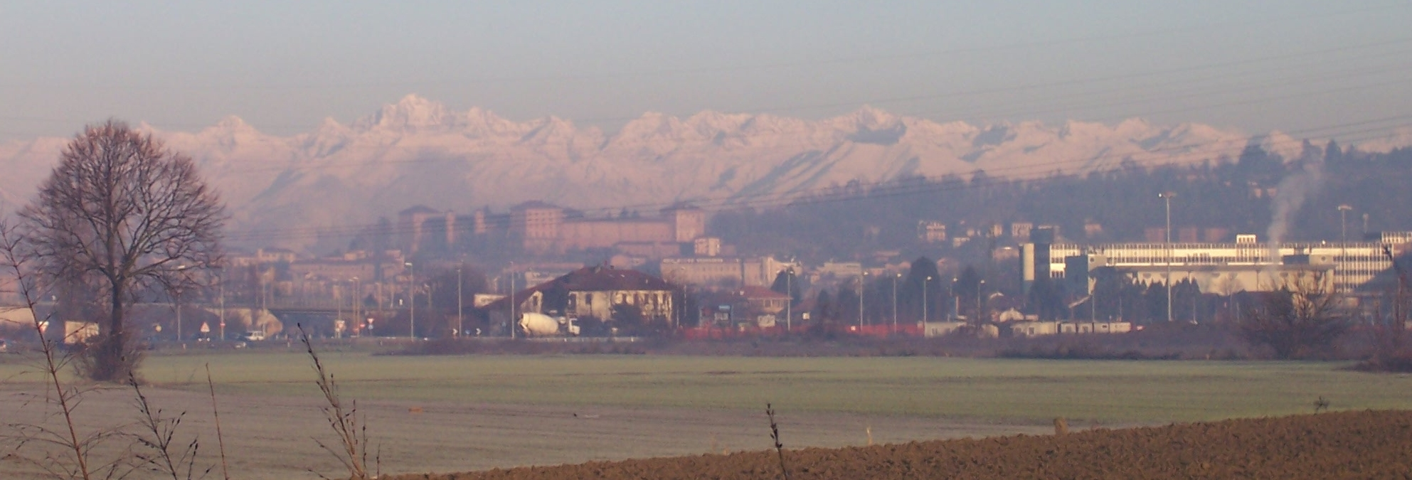 Moncalieri. (Not a totally clear day but as there are few pictures of the town.)